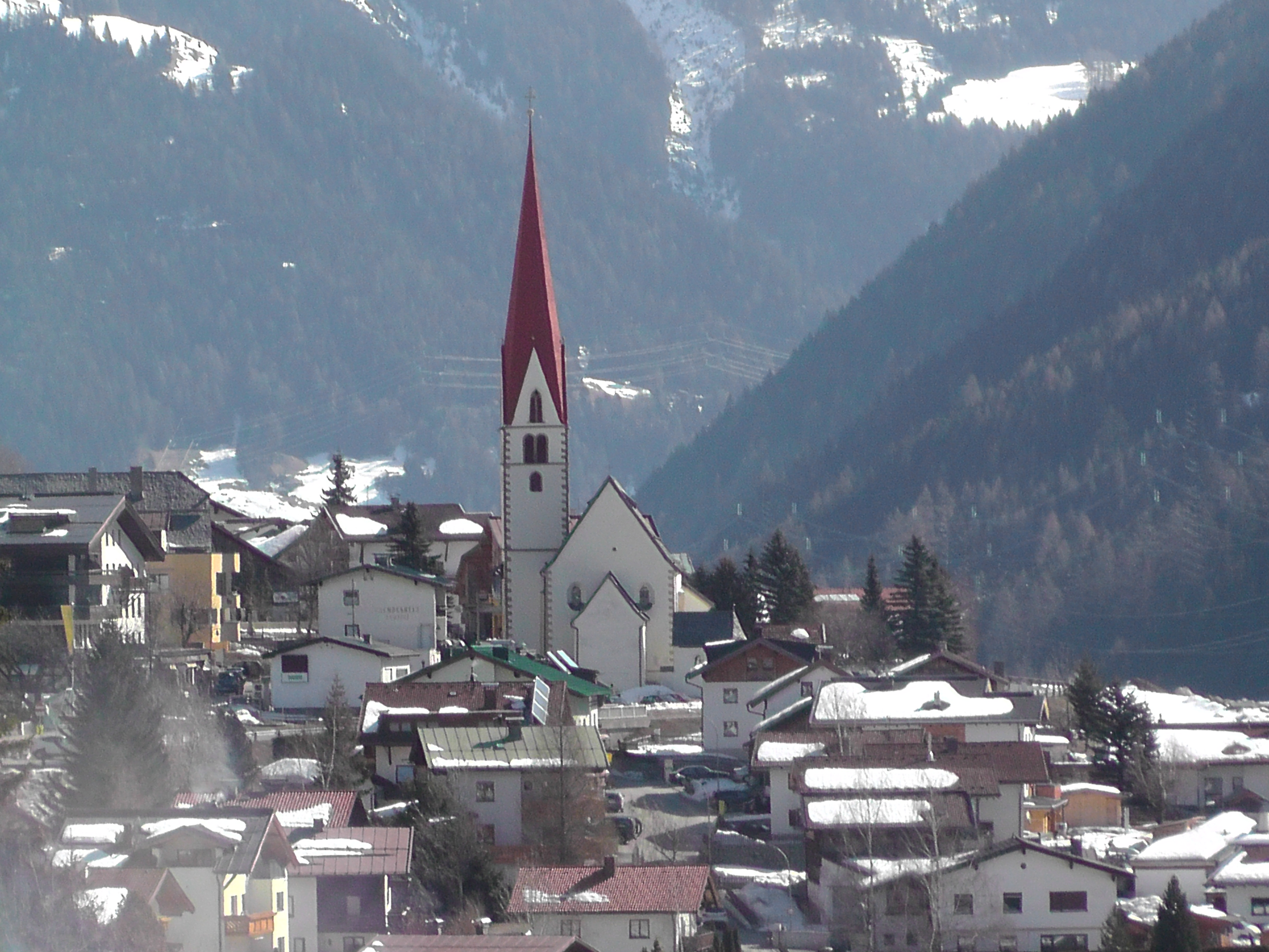 Mariä-Himmelfahrt-Kirche in Pettneu am Arlberg